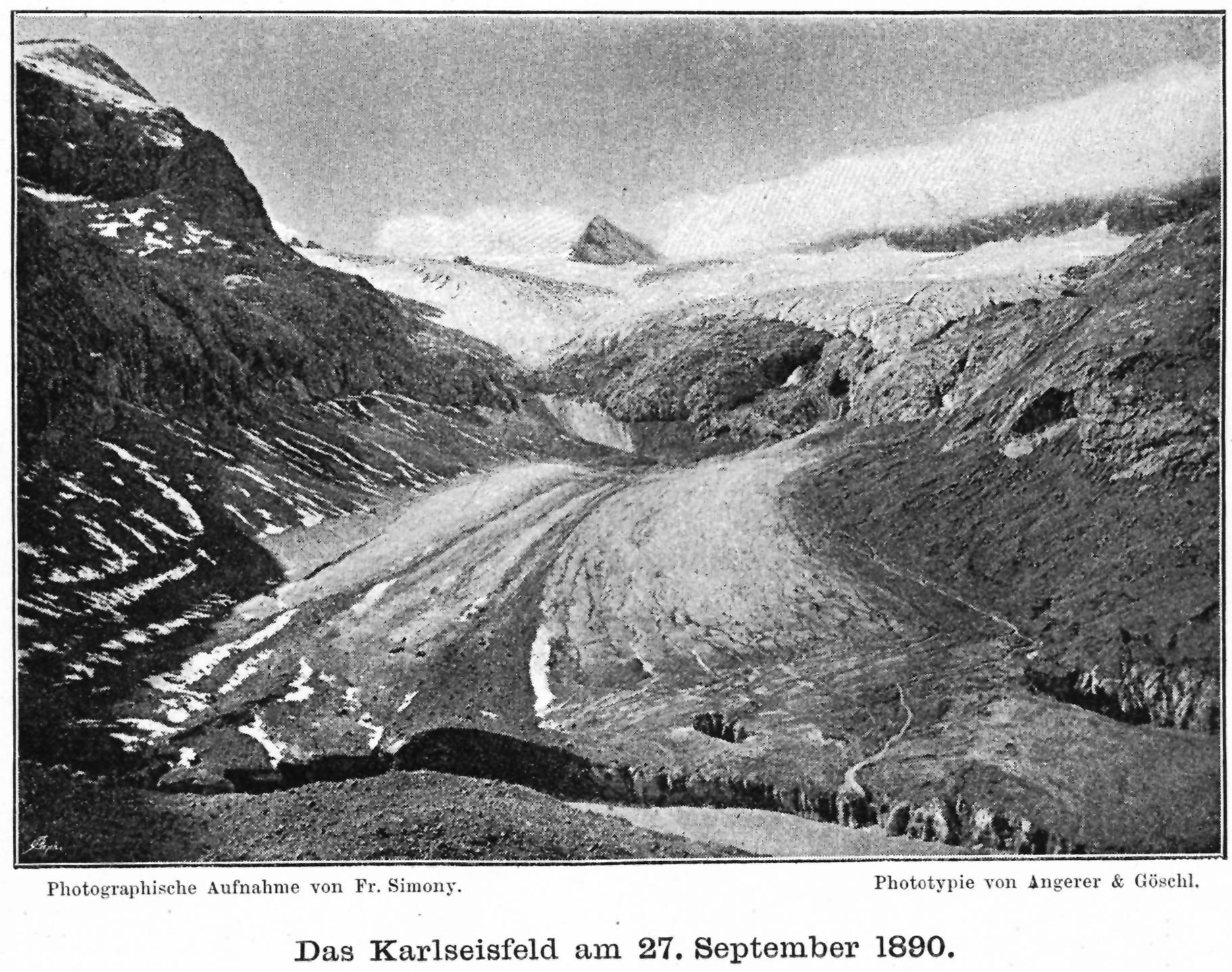 The glacier 'Hallstetter Gletscher' at the Dachsteingebirge in 1890